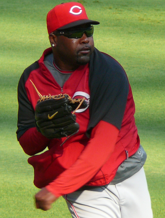 If used somewhere other than Wikipedia, Nelson, by name. 03:59, 20 September 2009 . . Chrisjnelson . . 576×760 (400 KB)